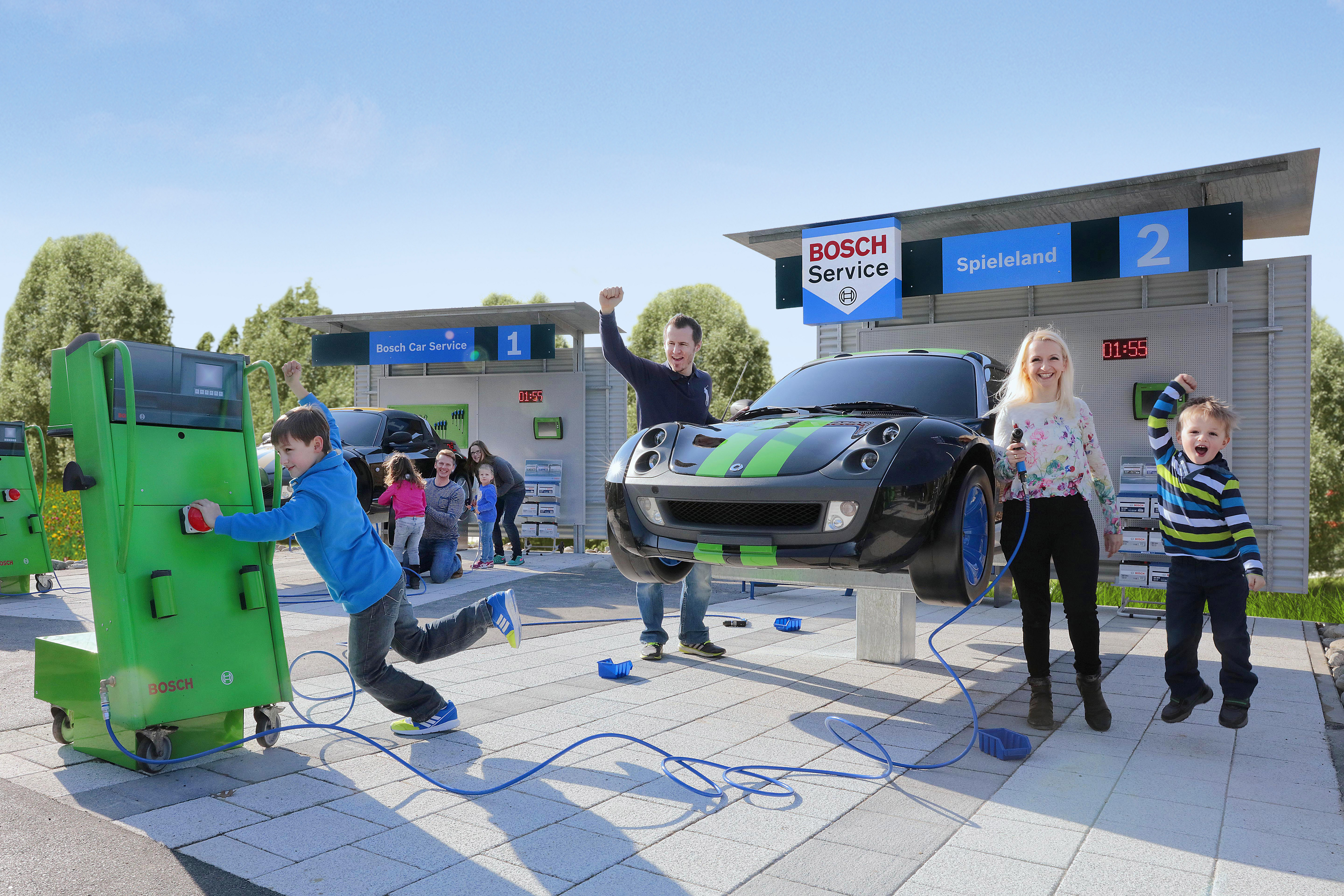 Die Bosch Car Service Werkstattwelt